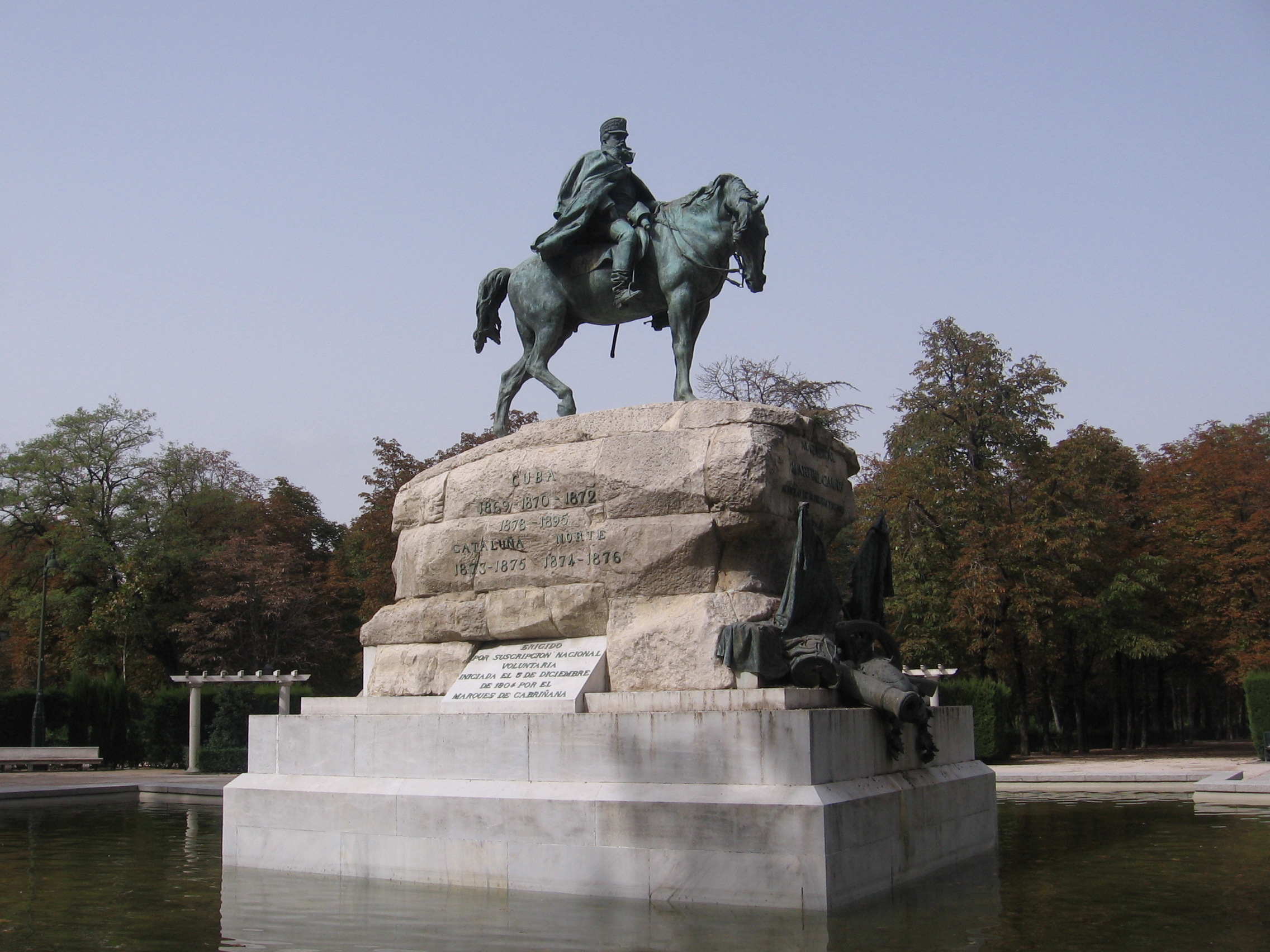 Parque del Buen Retiro, Madrid.